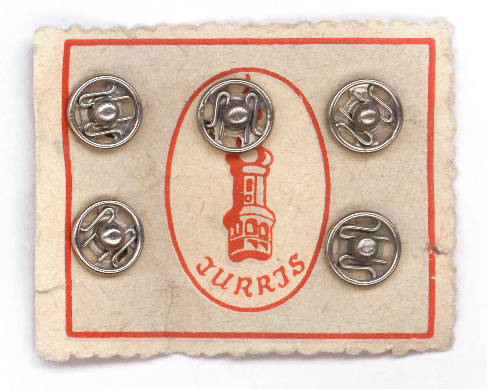 Dresses press-studs, Hungarian product, 1968